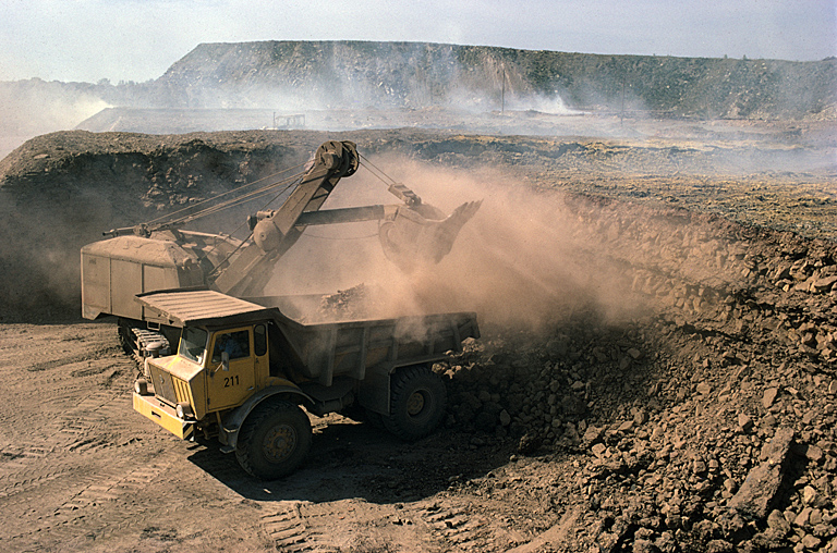 A Kockums Kl 420 haul truck in Sweden in the 1970s.